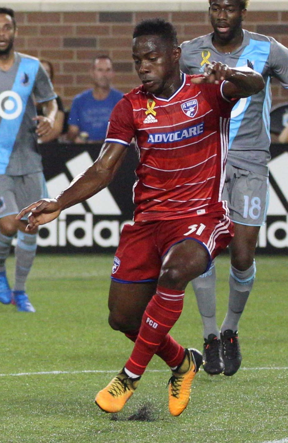 MNUFC - Minnesota United - MLS - FC Dallas